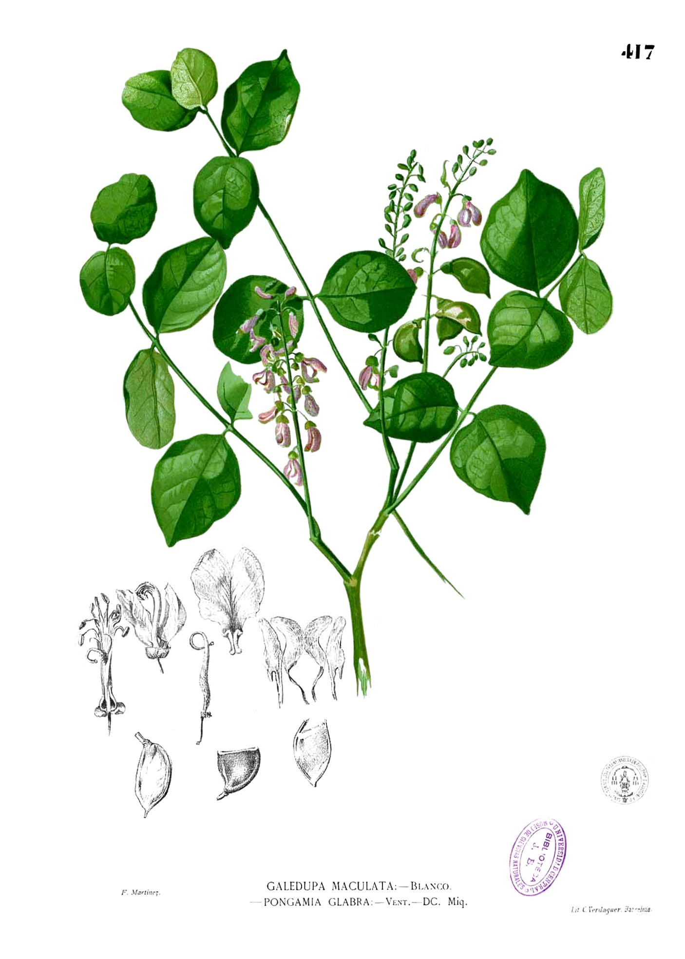 Millettia pinnata Plate from book